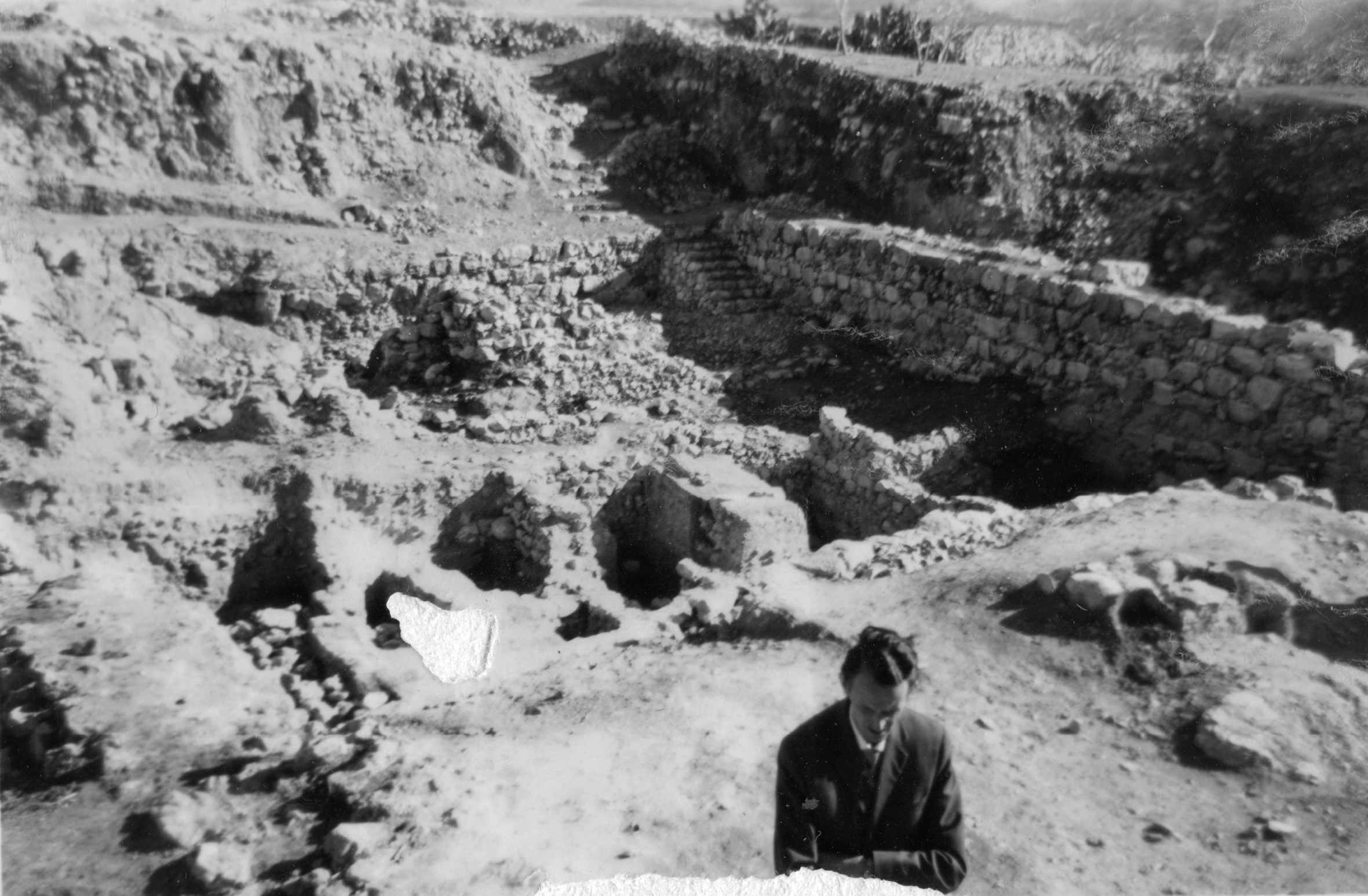 Excavation place of Shechem in 1961